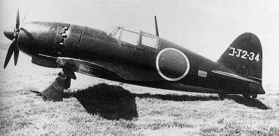 Prototype Mitsubishi J2M3 Raiden 21 from Yokosuka Naval Air Technical Arsenal testing unit ja:??:Mitsubishi J2M.jpg